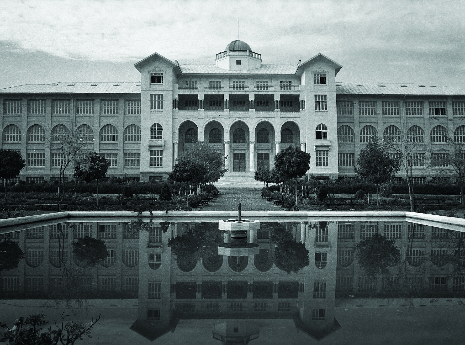 The ground of the Ankara Gazi Mustafa Kemal Male Teachers’ Training School [Gazi Institute of Education] was broken on August 8, 1927. The building was designed by architect Kemaleddin Bey; later on Ernst A. Egli also involved in the construction of building on the orders he received. Kemaleddin Bey became very upset over this situation. The building is currently used by the Rectorate of Gazi University. Gazi Eğitim Enstitüsü, 1930’lu yıllar. Ankara Gazi Mustafa Kemal Erkek Muallim Mektebi’nin [Gazi Eğitim Enstitüsü] temeli, 8 Ağustos 1927 günü atıldı. 1930’da bitirildi. Mimar Kemaleddin Bey’in projelendirdiği binaya Ernst A. Egli’nin aldığı talimat gereği bazı müdahaleleri oldu. Kemaleddin Bey bundan dolayı çok üzülmüştür. Bina, hâlen Gazi Üniversitesi Rektörlüğü tarafından kullanılıyor.